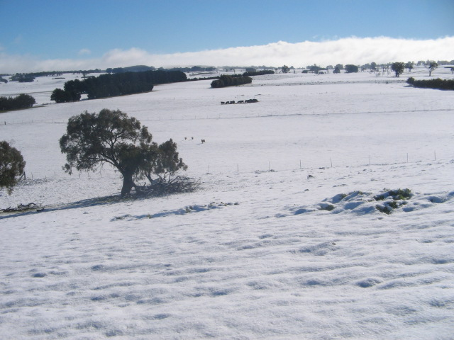 Author: JT Moloney Source: JT Moloney